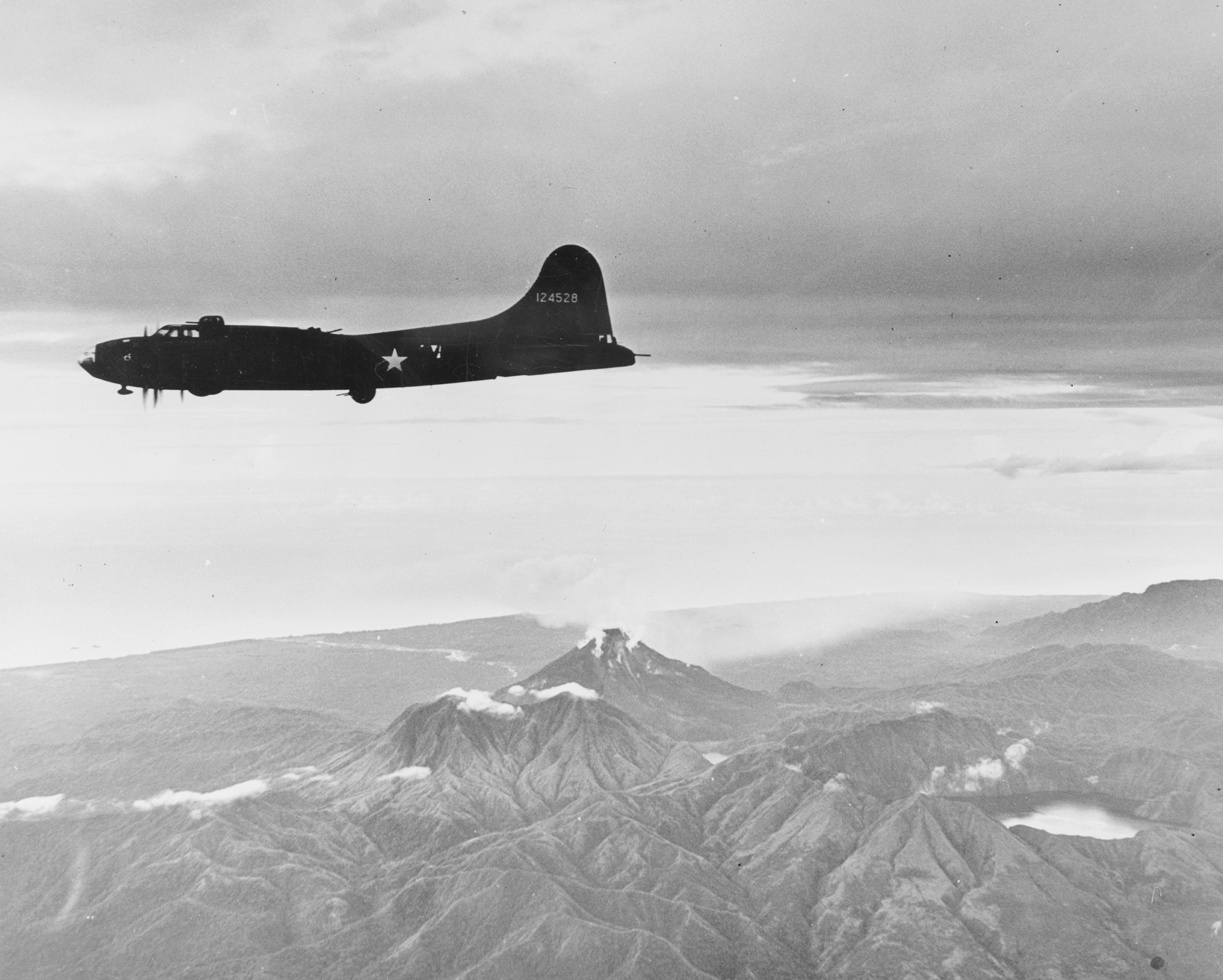 A USAAF Boeing B-17F-20-BO Flying Fortress (s/n 41-24528) over Mount Bagana on Bougainville after participating in a raid on the Japanese airfield at Buka and then heading for Shortland harbour to attack Japanese shipping, 11 November 1942.